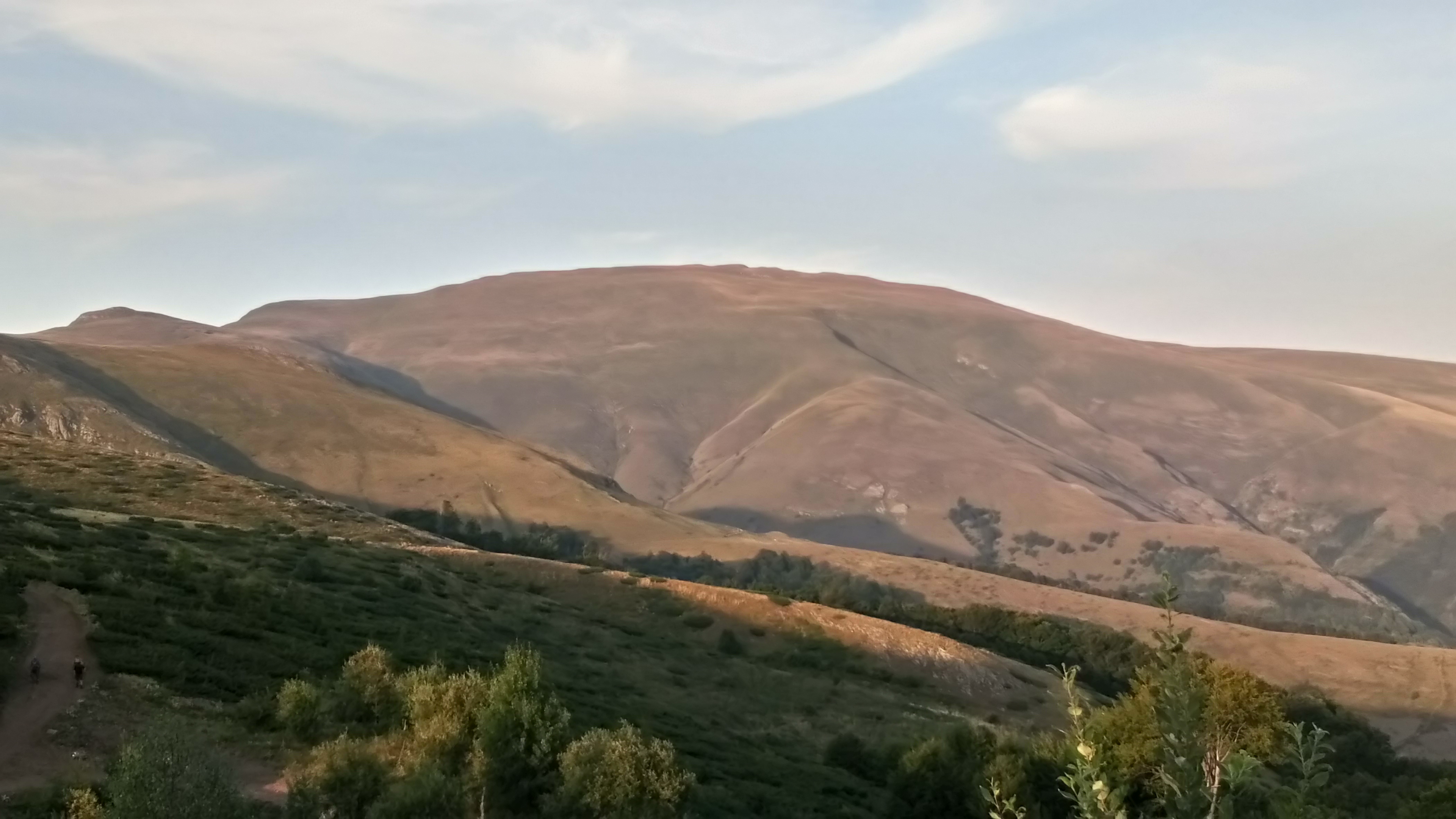 Поглед на врхове Дупљак и Миџор из близине врха Бабин зуб. Фотографија је моје ауторско дјело, настала у августу 2019. године.